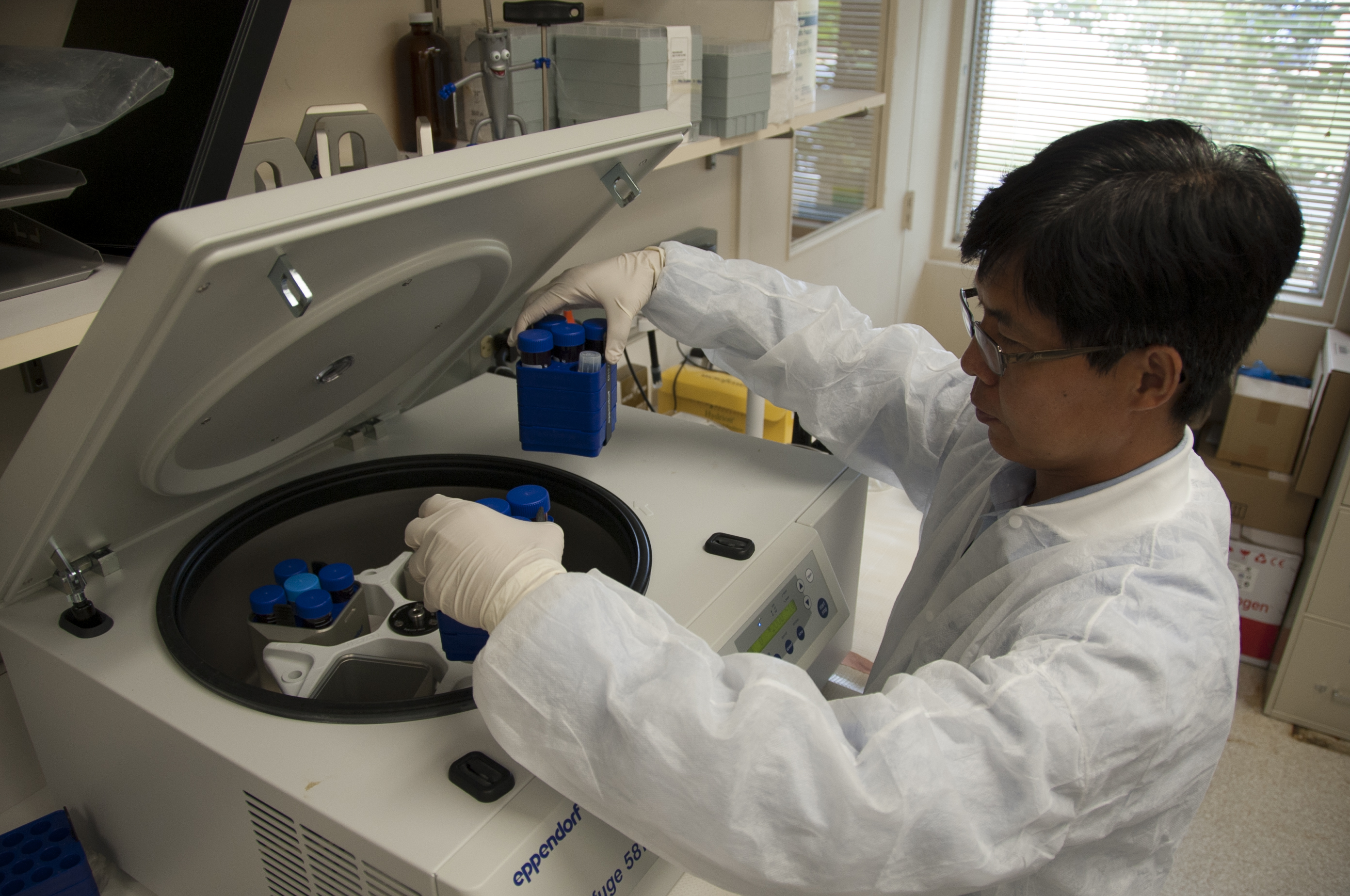 Jason Liu, Ph.D., laboratory chief at FDA’s Office of Blood Research and Review, places blood specimens into a centrifuge to isolate blood components. A unit of whole blood can be separated, for example, into platelets and red blood cells. The separated components can be studied separately and can be used for different patients with different needs. FDA is responsible for the safety of our nation’s blood supply and is at the forefront of evaluating and encouraging innovative technologies for protecting it. Read this Consumer Update to learn more: Advances in Saving Lives with Blood FDA photo by Michael J. Ermarth